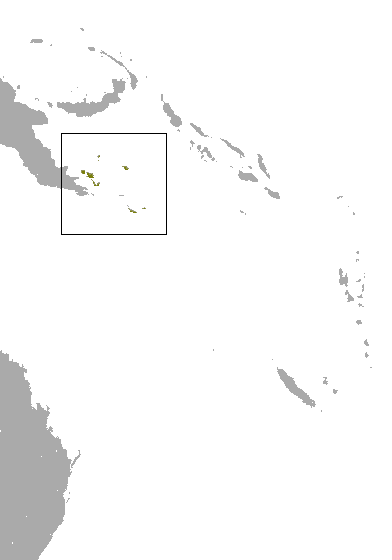 Panniet Naked-backed Fruit Bat (Dobsonia pannietensis) range